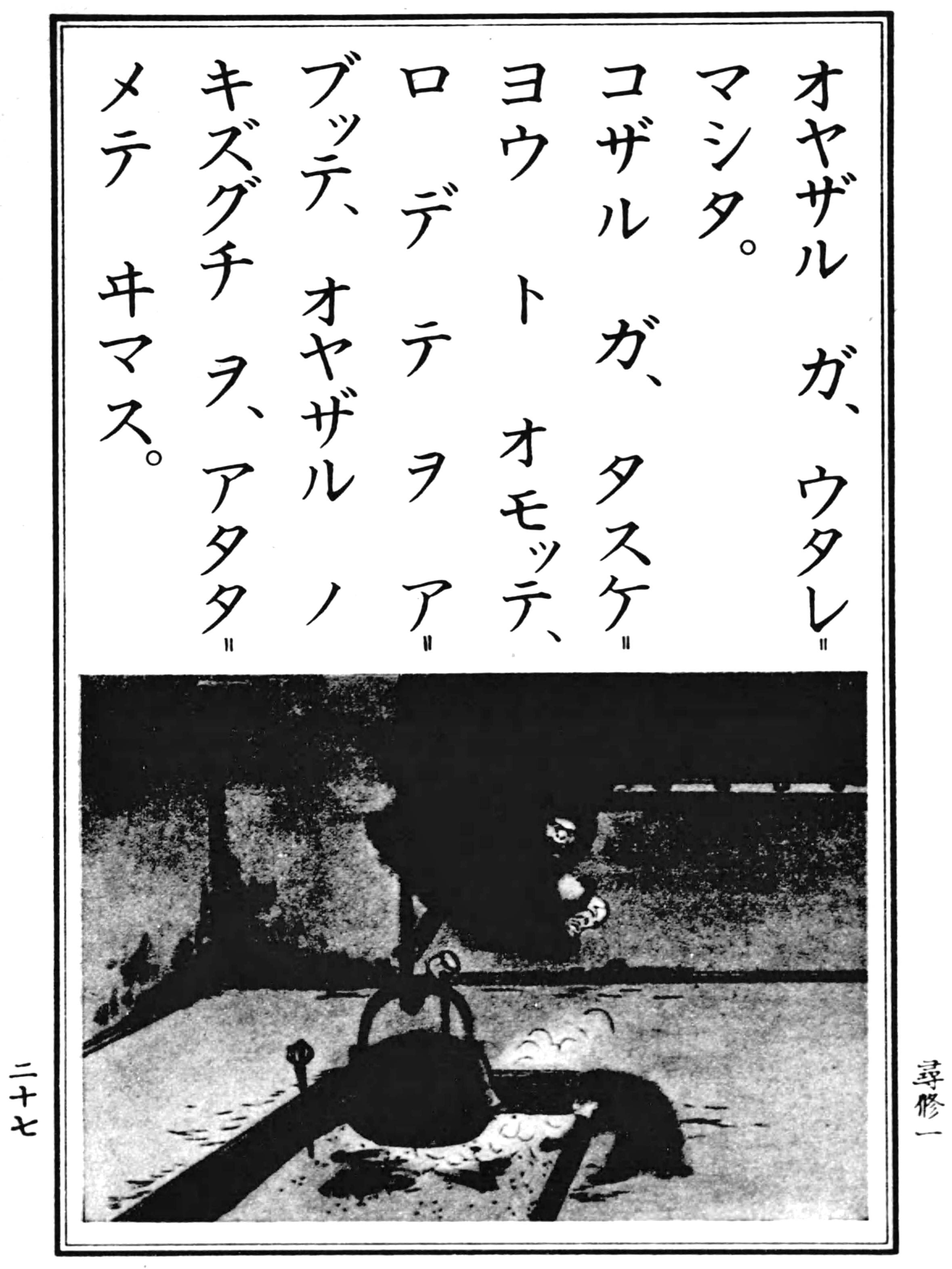 Kōkōzaru.